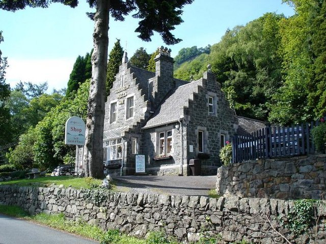 Trefriw Wells Spa. The spa just outside Trefriw. Various treatments are available as is a tour of the spa itself.